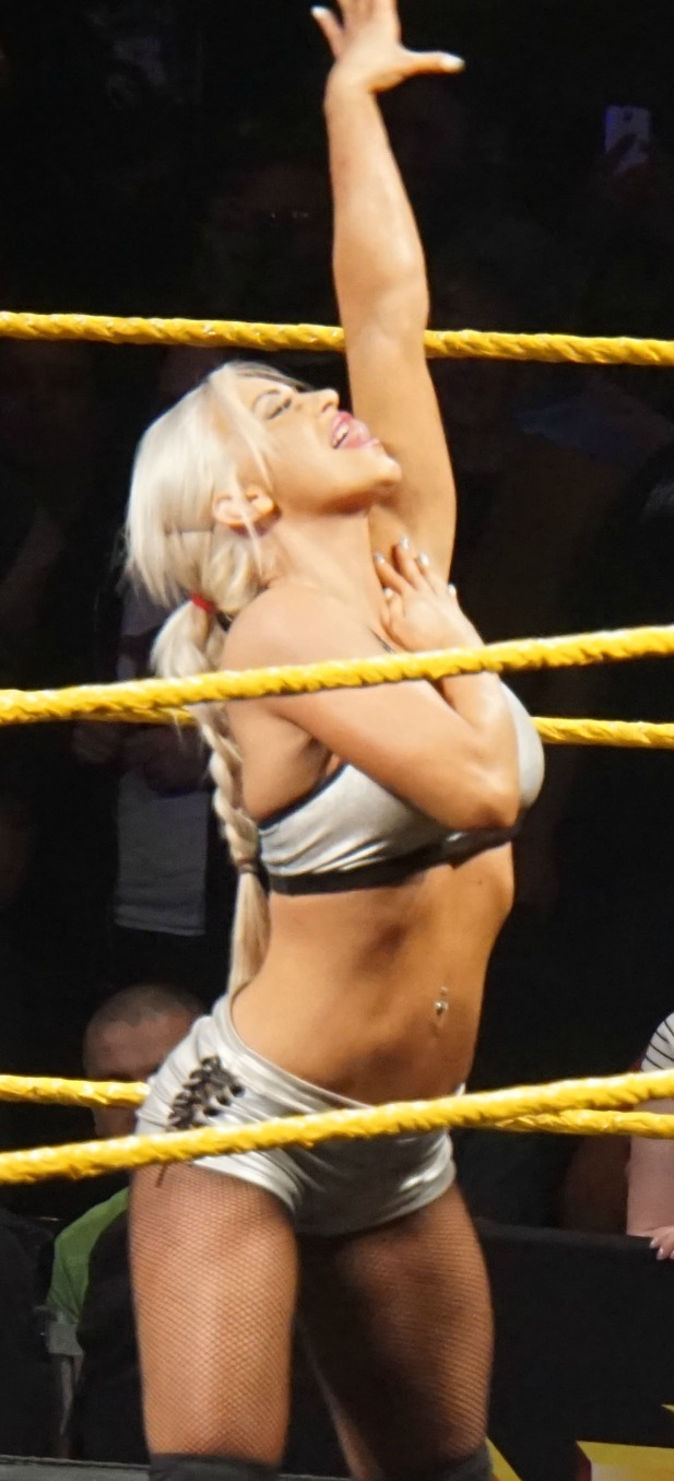 Dana Brooke performing her signature pose during an NXT Live event in March 2015